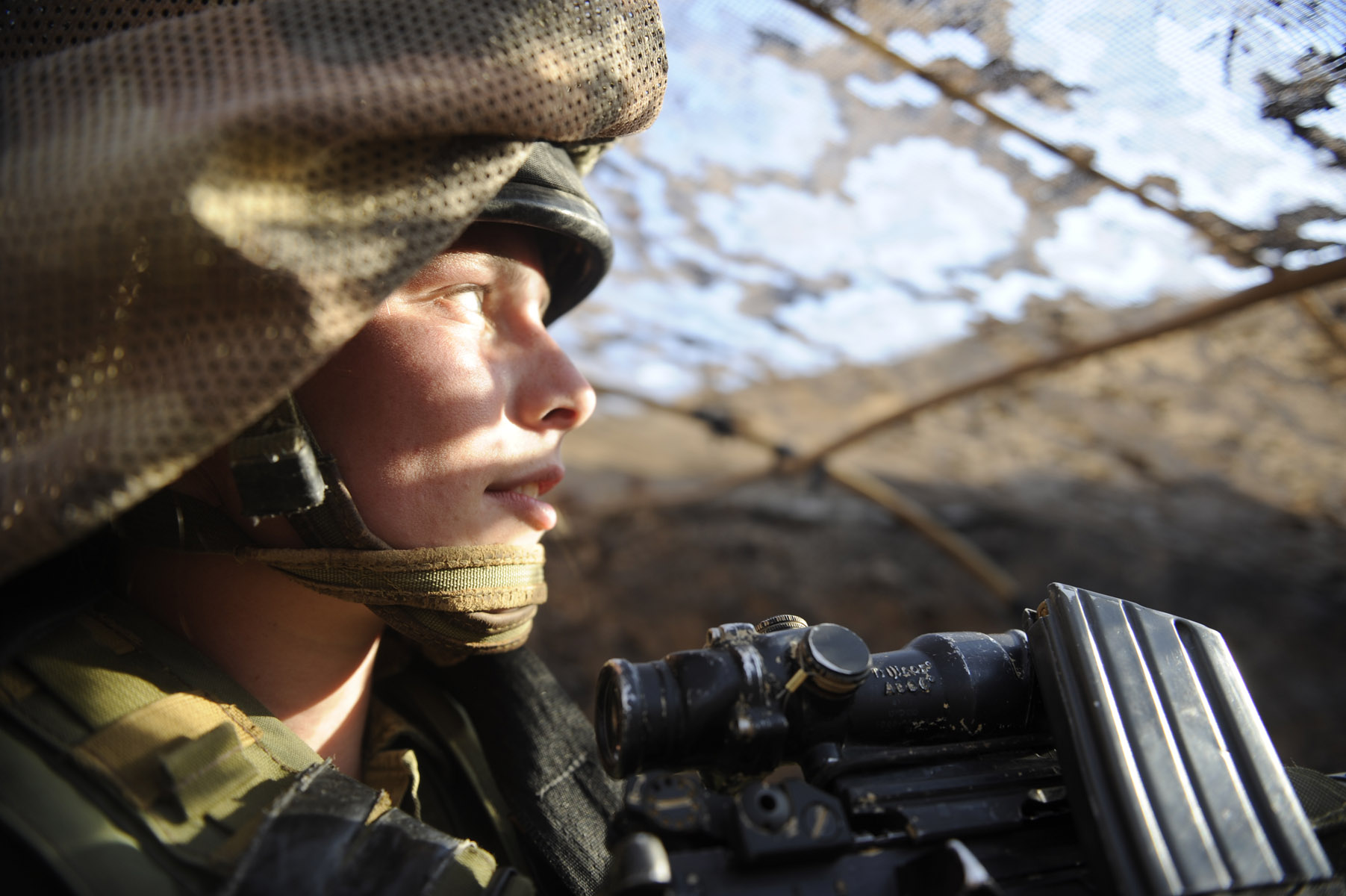 November 2011 Female combat soldiers of the field intelligence company "Nachshol" are stationed along the southern Israeli border. Due to the increased tension in the area, a unique exercise was conducted in the beginning of November, practicing clashes with terrorists, storming at targets, and high-level camouflage, while confronted with mock explosives simulating real bombs. Click here to take a look into the life of female field intelligence combat soldiers The Israel Defense Forces Facebook page The Israel Defense Forces blog Follow us on Twitter